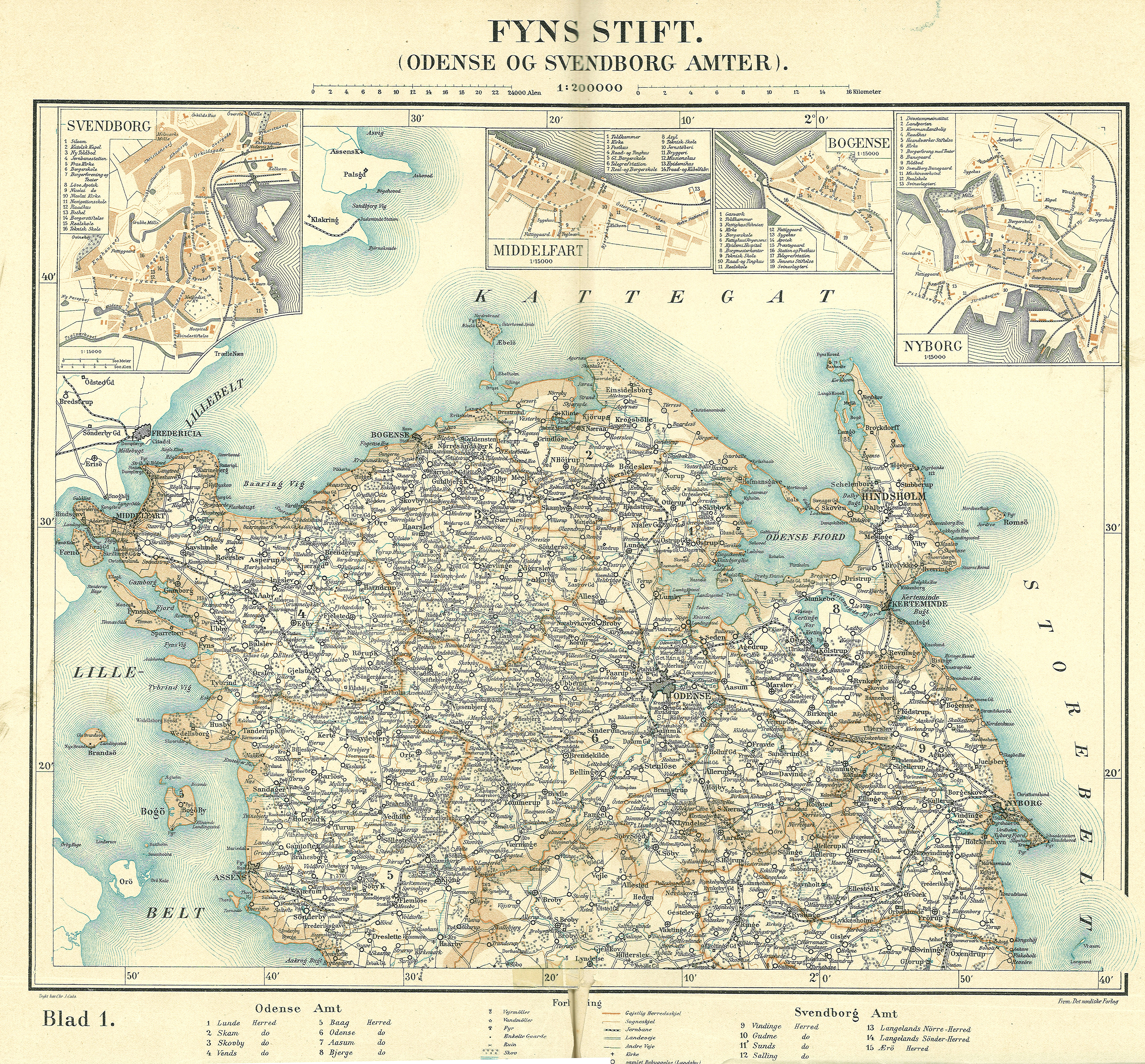 Map of Odense County in Denmark